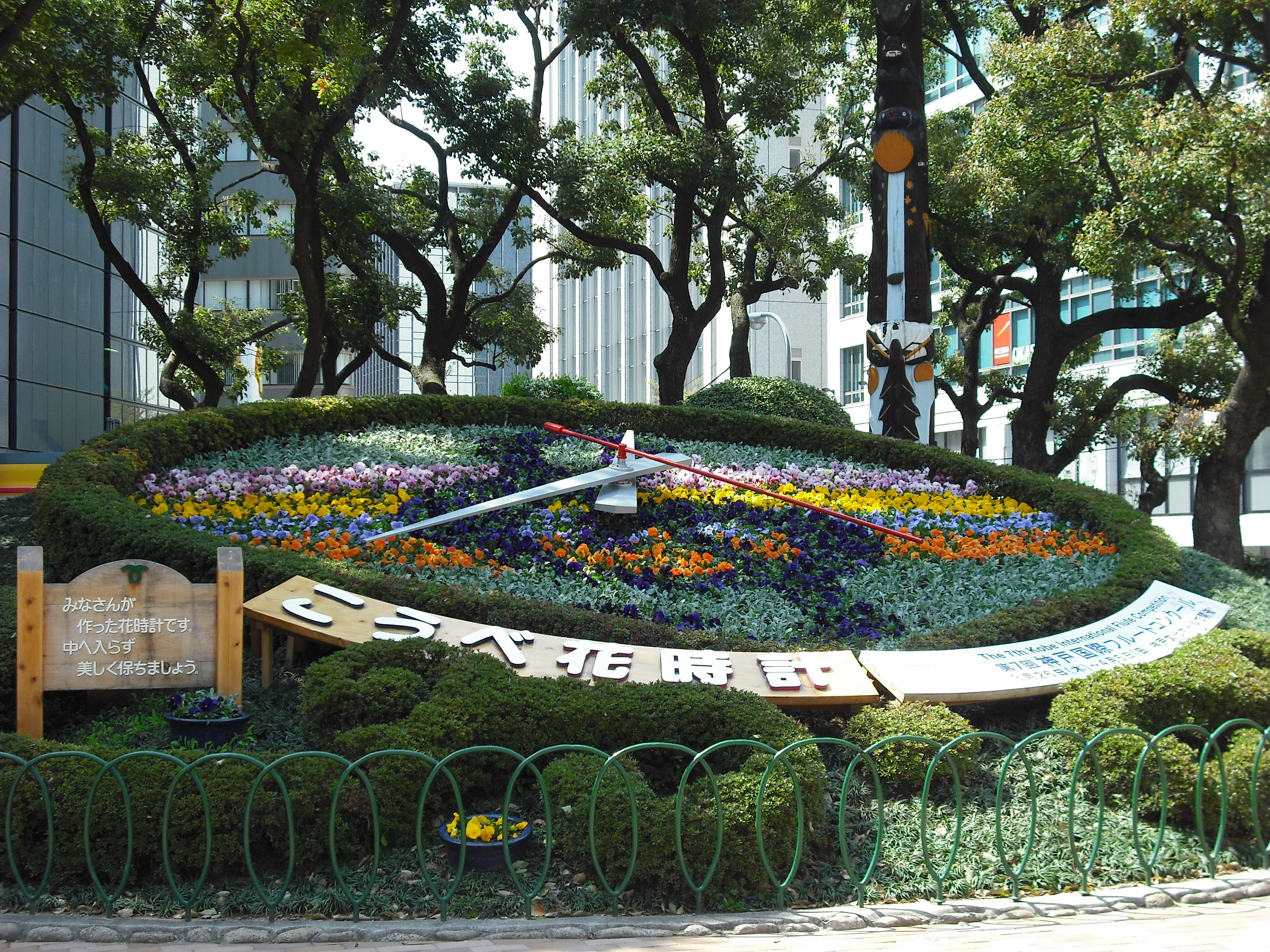 Hana-Dokei（Chuuou-ku,Kobe,Hyogo Prefecture,Japan）